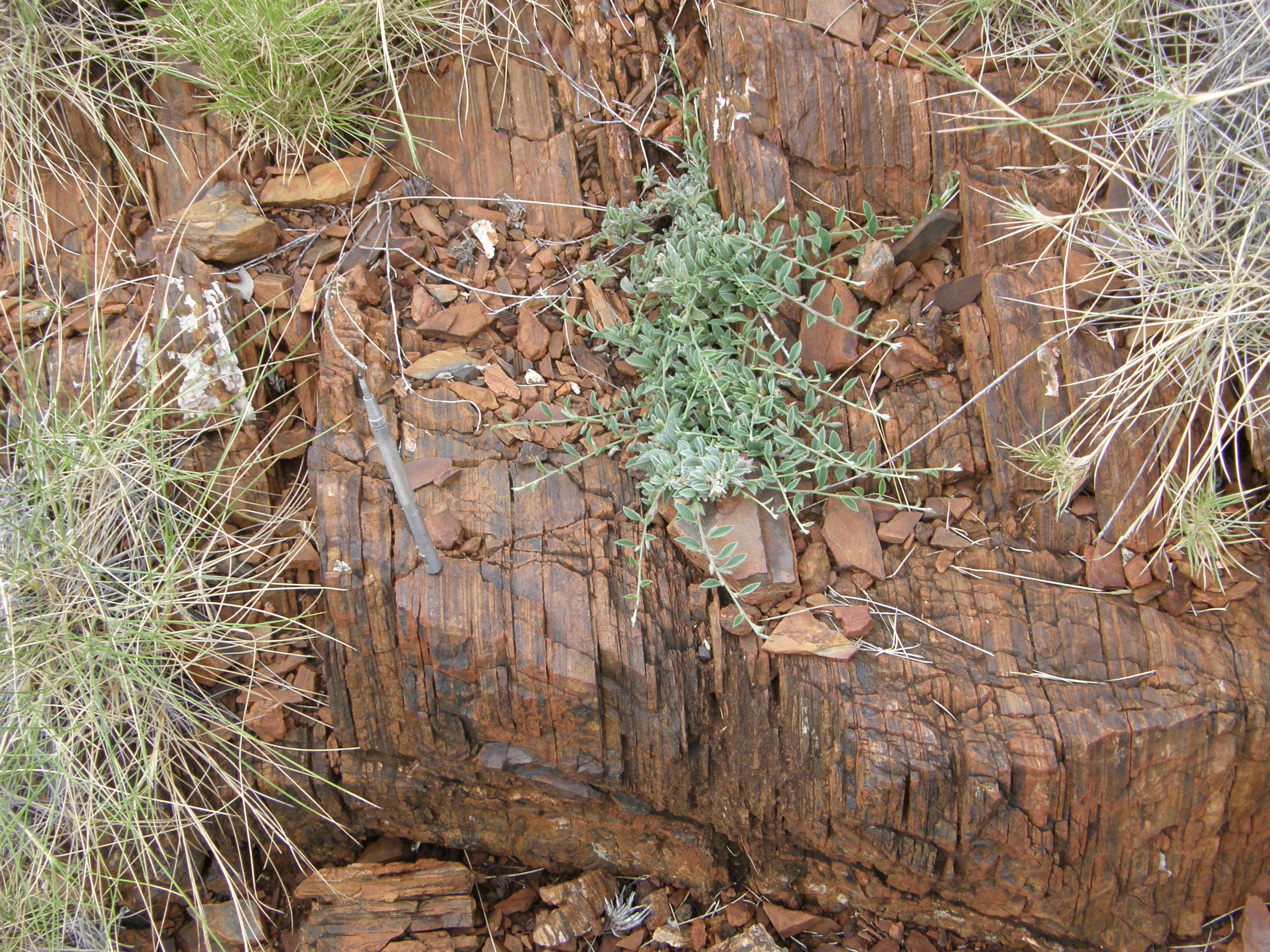 Algoma-type BIF of the Cleaverville Formation with black bands of magnetite, Maitland River prospect, Pilbara, Western Australia